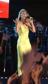 Members of the Band of the U.S. Air Force Reserve perform the song “God Bless America” with singer Céline Dion May 2 aboard the aircraft carrier USS Harry S. Truman in 2002.